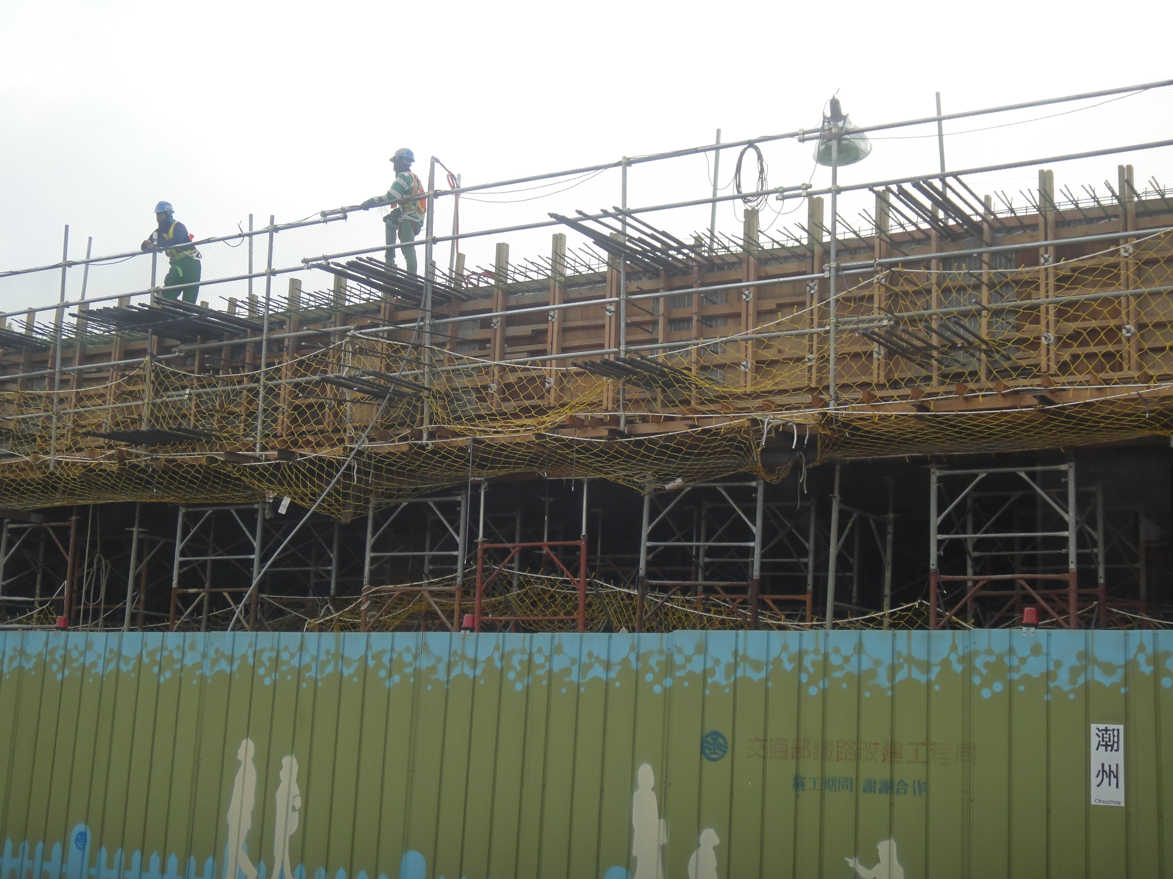 Taiwan Railway Administration's Elevatizion Construction in Chaozhou, Pingtung.